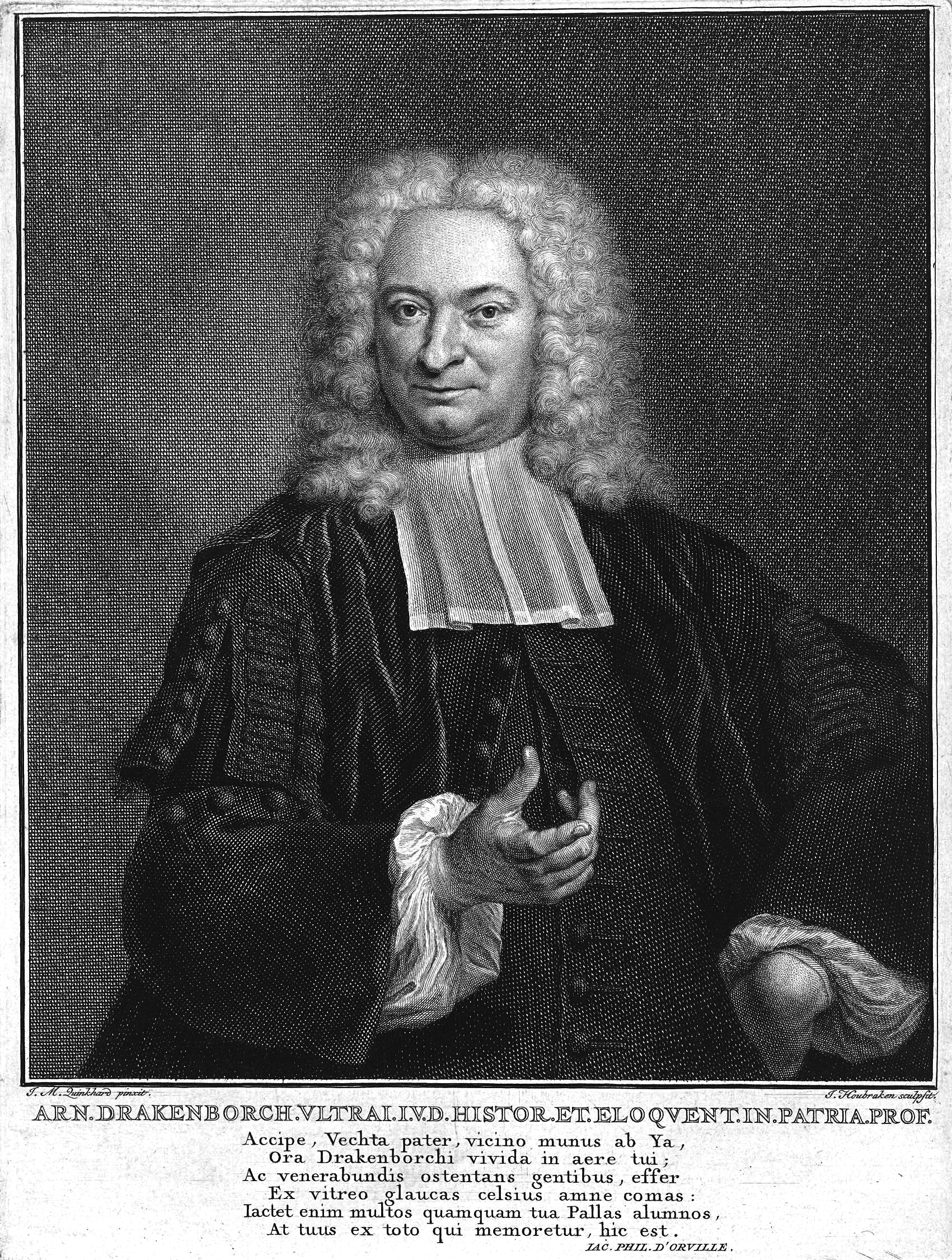 Arnold Drakenborch engraving on paper 1736 - 1738